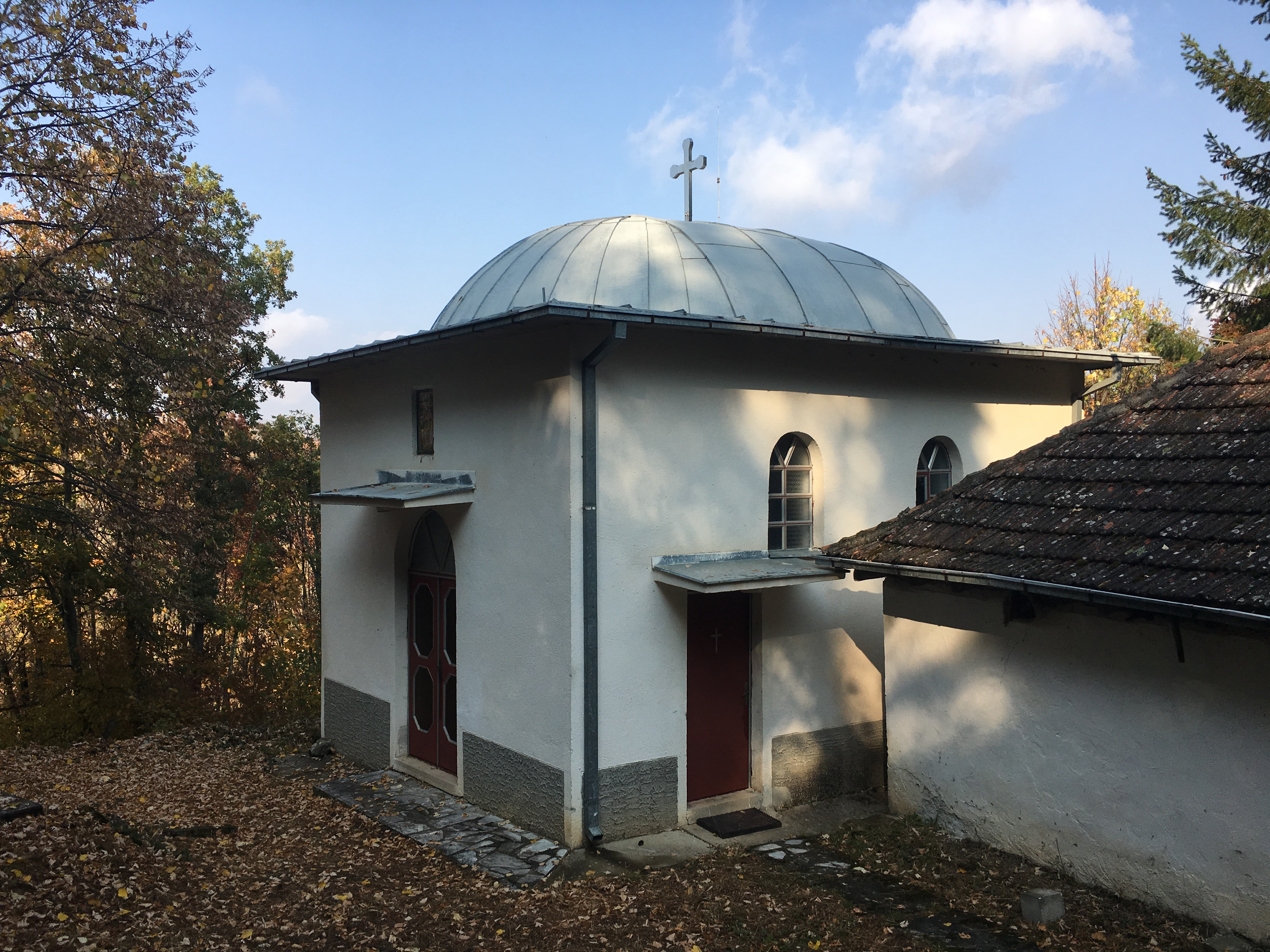 Wikiexpedition to Kopačka